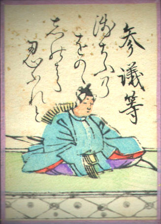 A portrait of Sangi Hitoshi; illustration from an uta-garuta playing card for Hyakunin Isshu, created in the Edo period.